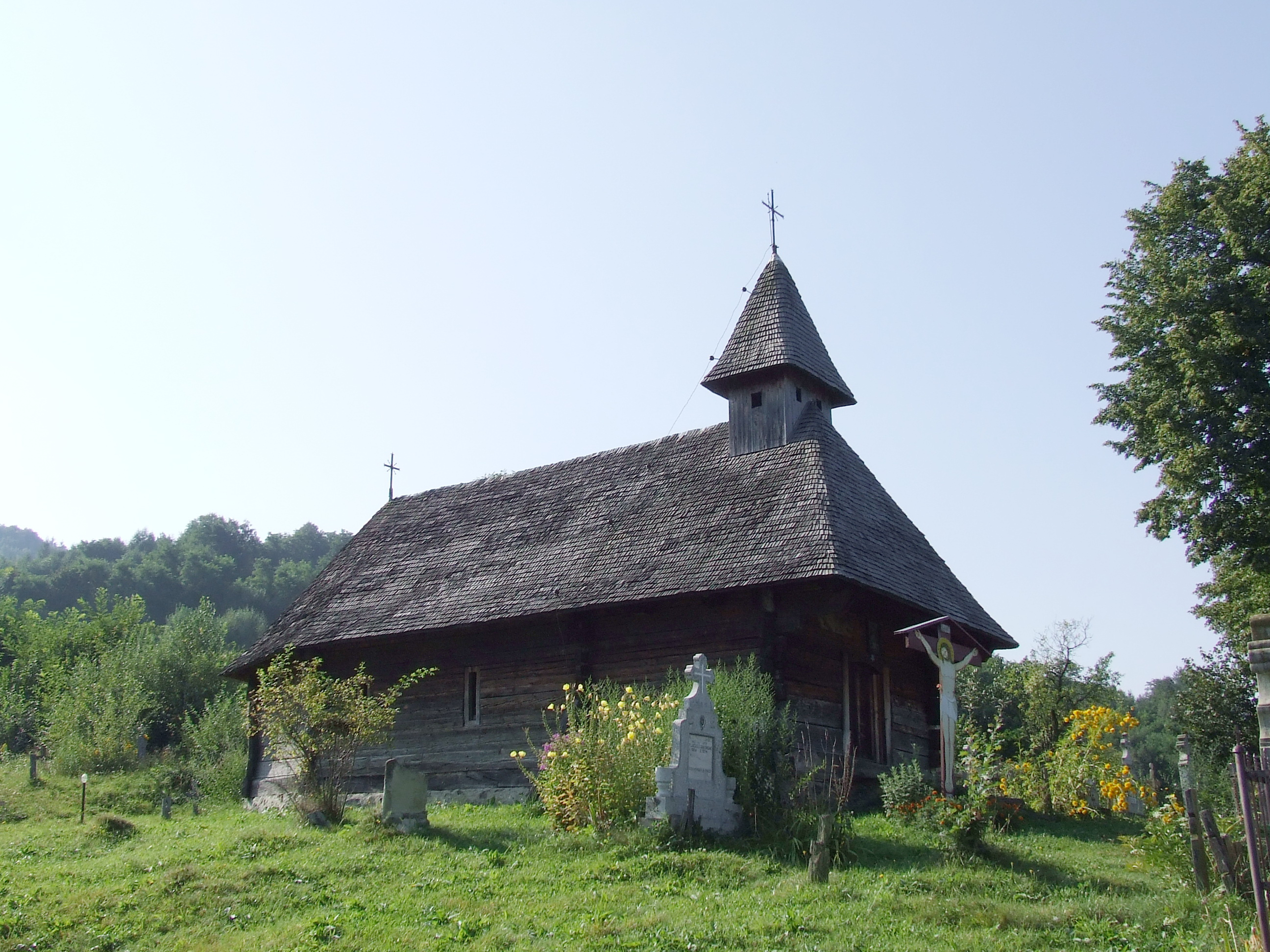 wooden Orthodox church in Șinca Nouă village, Romania